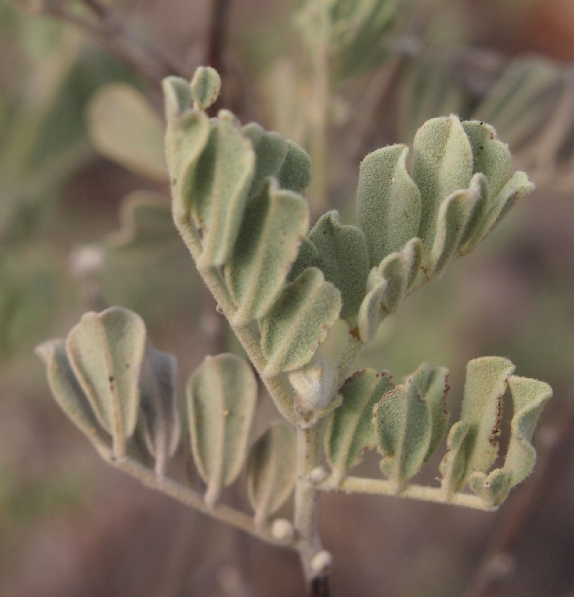 Senna artemisioides ssp. helmsii